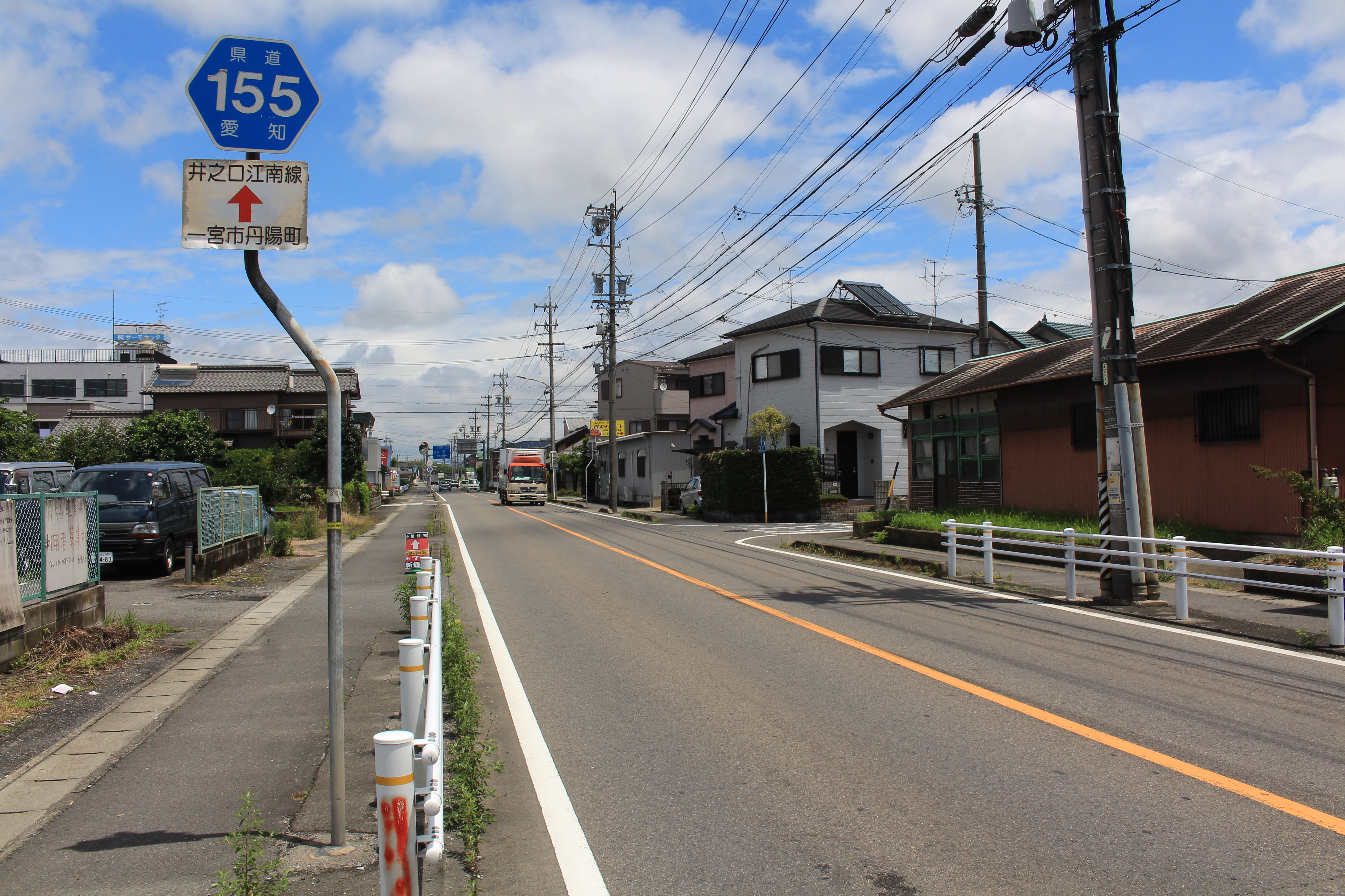 Aichi Prefectural Road Route 155 in Mitsui, Tanyocho, Ichinomiya, Aichi prefecture, Japan.